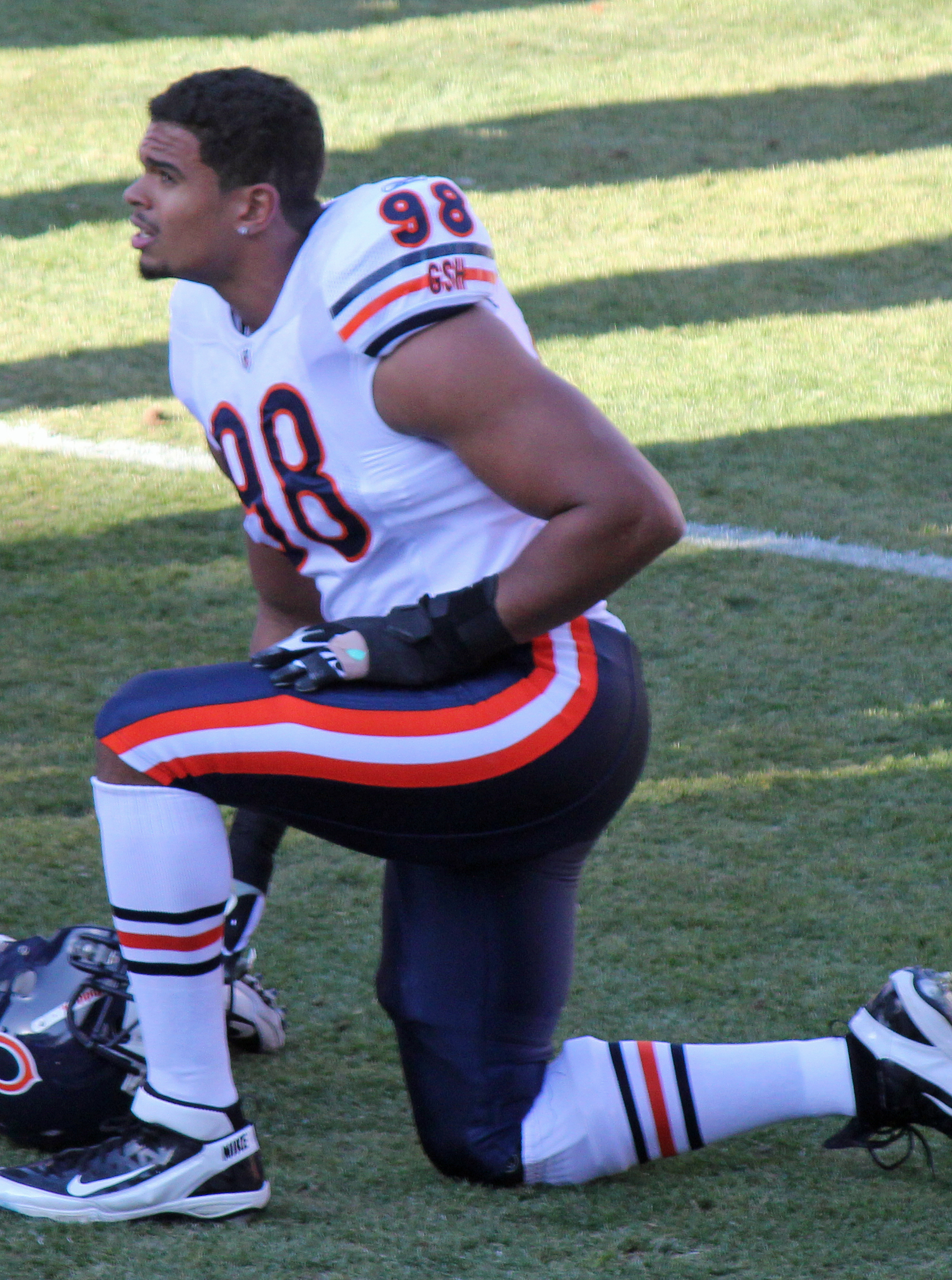 Corey Wootton, a player on the National Football League.